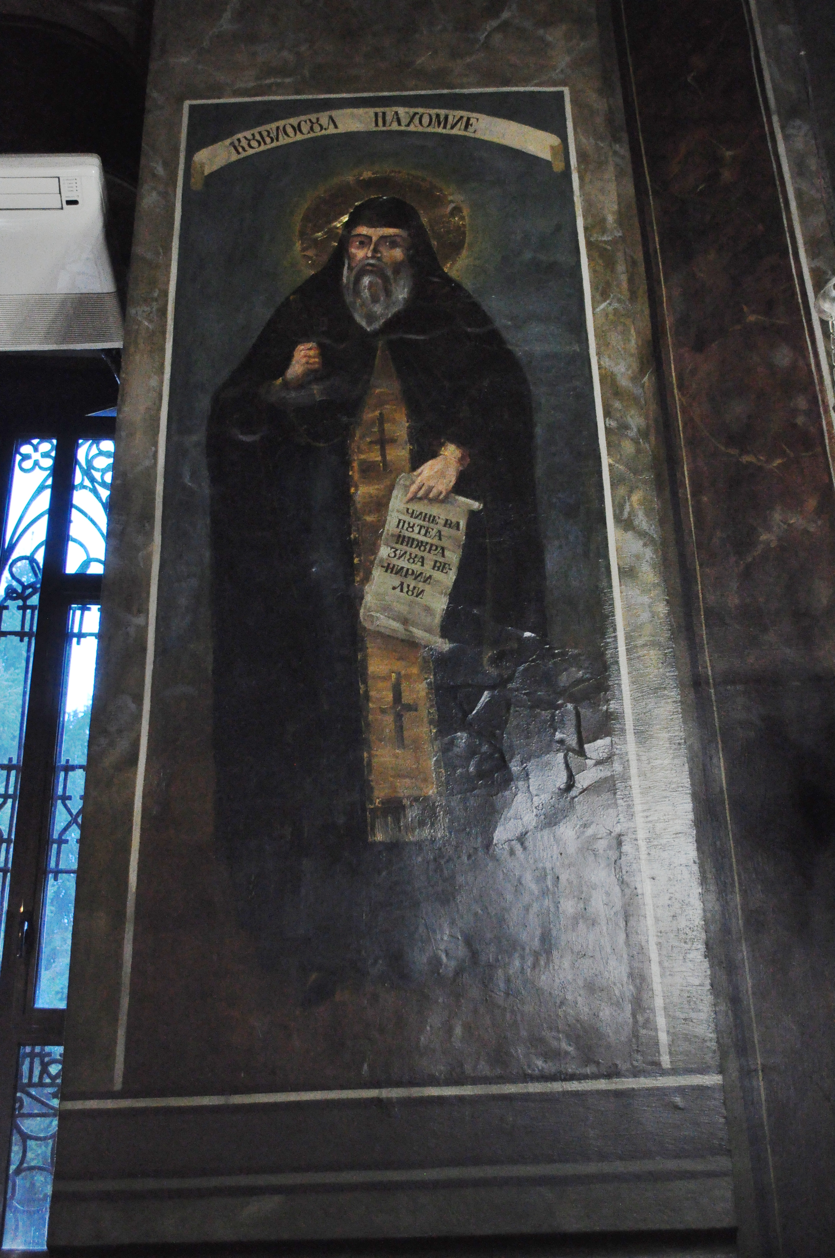 Interior of church variously known as Biserica Sf. Nicolae (St. Anthony Church), Biserica Buna Vestire (Annunciation Church), occasionally Biserica Domnească (Princely Church), and most often simply Biserica Curtea Veche (Old Court Church; it is adjacent to the ruins of the Old Court), Bucharest, Romania. The two texts on the painting are in Romanian, but written in Cyrillic characters. "КУВИОСЮЛ ПАХОМИE" transliterates as Cuviosul Pachomie ("The Pious (or Venerable) Pachomius") and ЧИНЕ ВА ПЮТЕА ЇНDЮРА ЗИЮА ВЕНИРИИ ЛЮИ as Cine vǎ putea îndura ziua venirii lui ("But who can endure the day of His coming?", Book of Malachi, Chapter 3, Verse 2. A modern Romanian translation would be "Cine va putea să sufere însă ziua venirii Lui?").